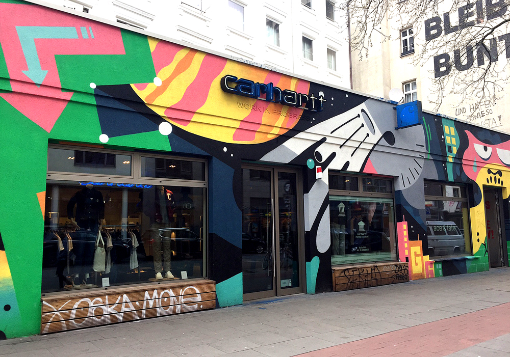 The Carhartt store in Hamburg (Schanzenviertel)